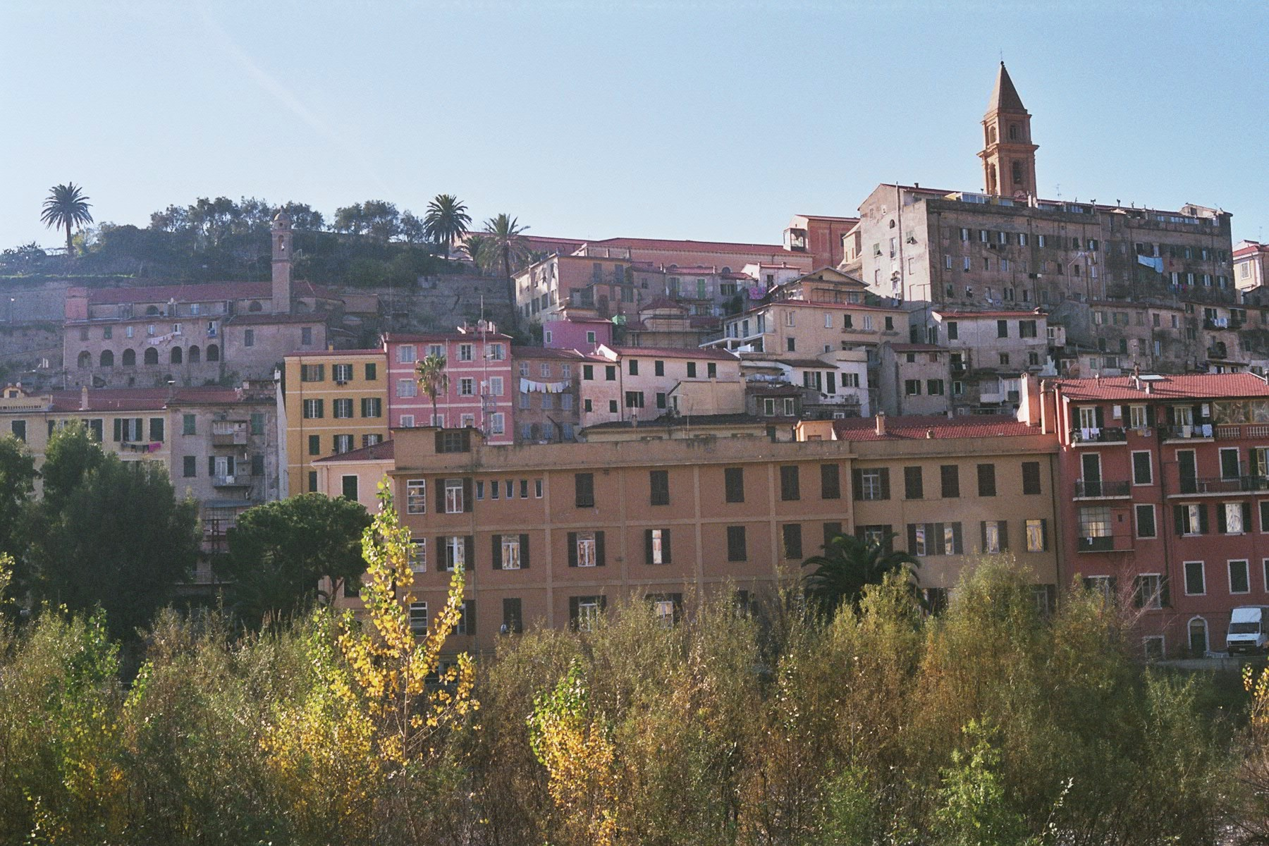 The Italian city of Ventimiglia in Liguria, on the border with France.